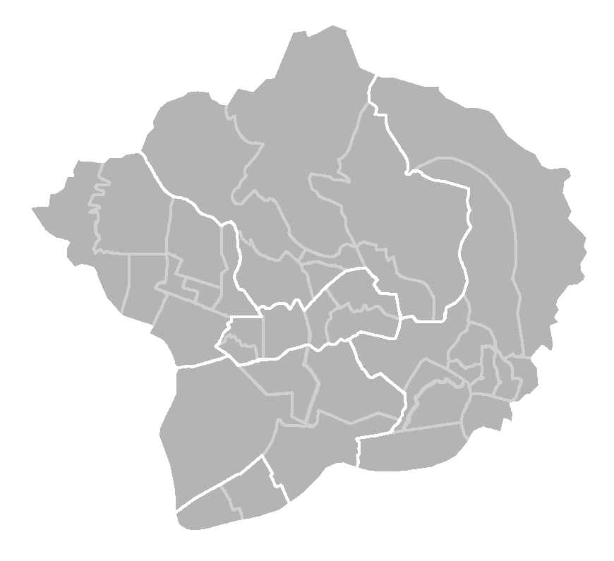 The location of Sub-District in NeiHu District, Taipei City.